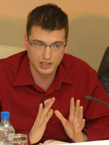 Picture of serbian gay activist and journalist Predrag Azdejkovic